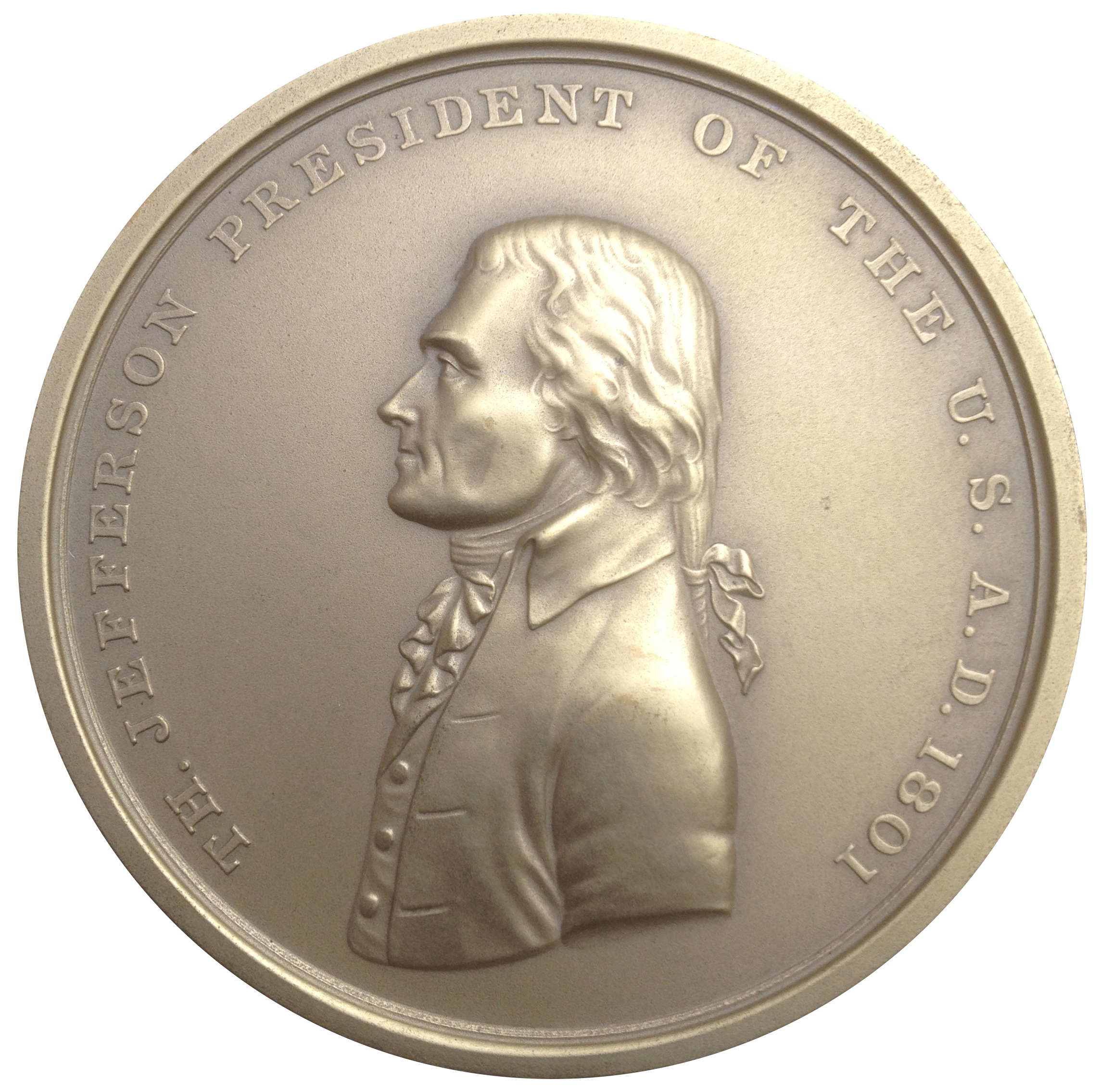 Thomas Jefferson Indian Peace medal, later used as his entry in the Mint's Presidential Series of medals.